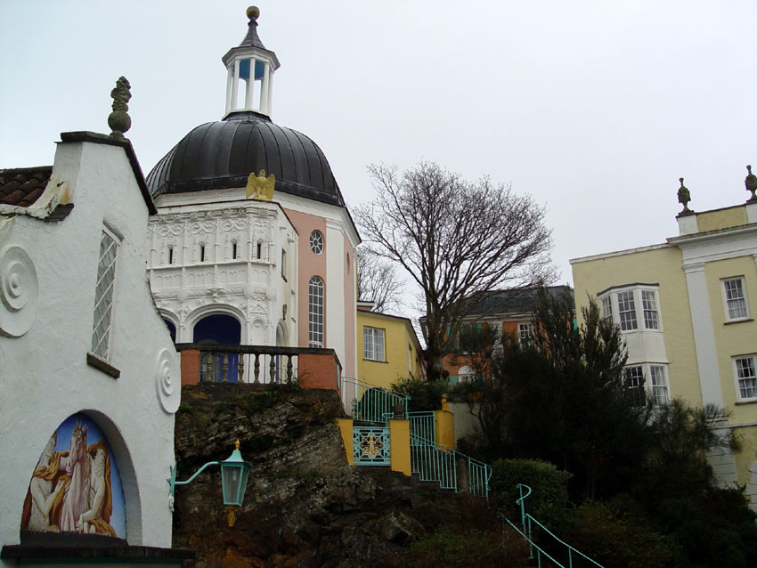 Pantheon in Portmeirion